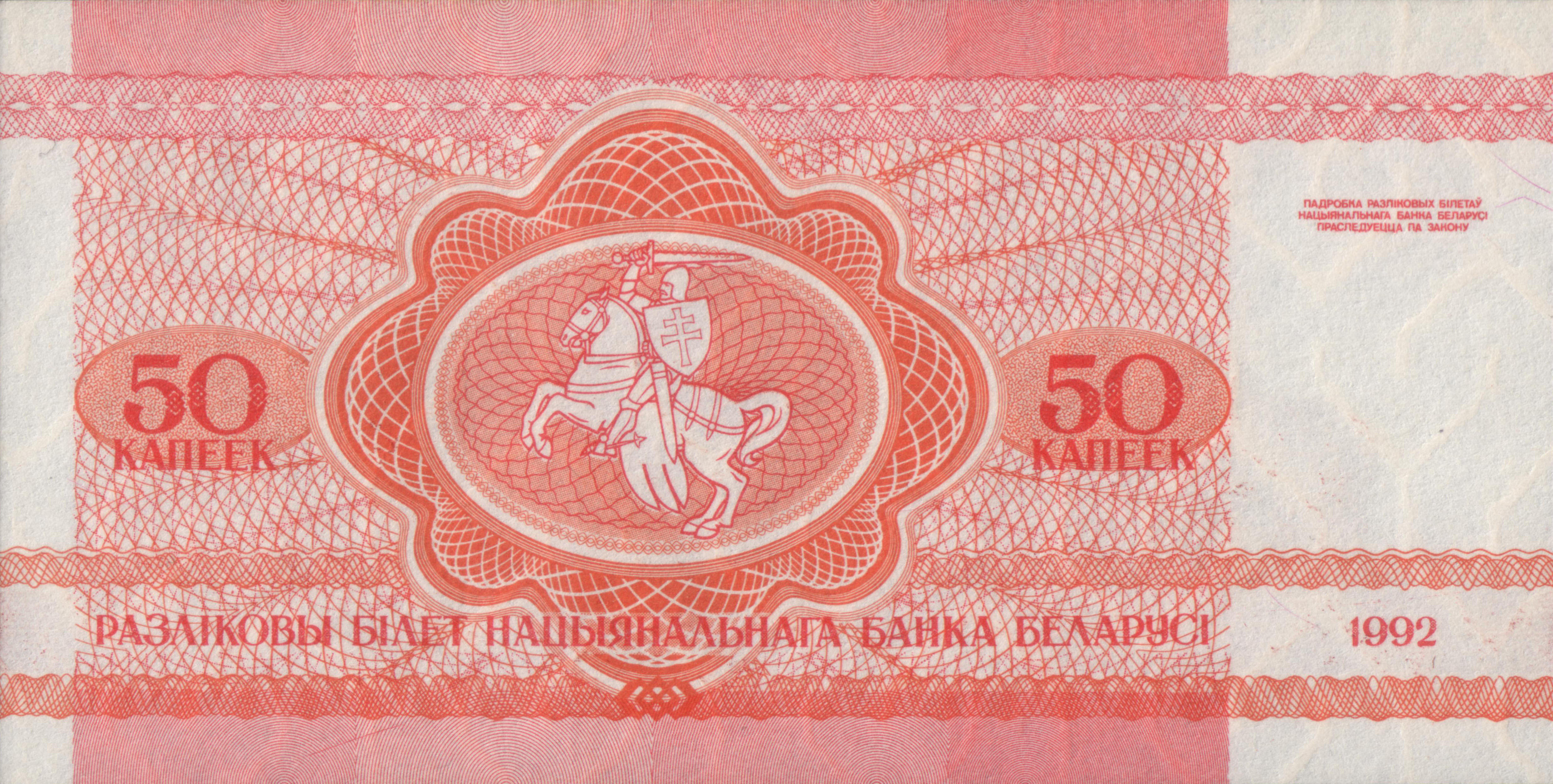 50 kopeck of Belarus (1992)